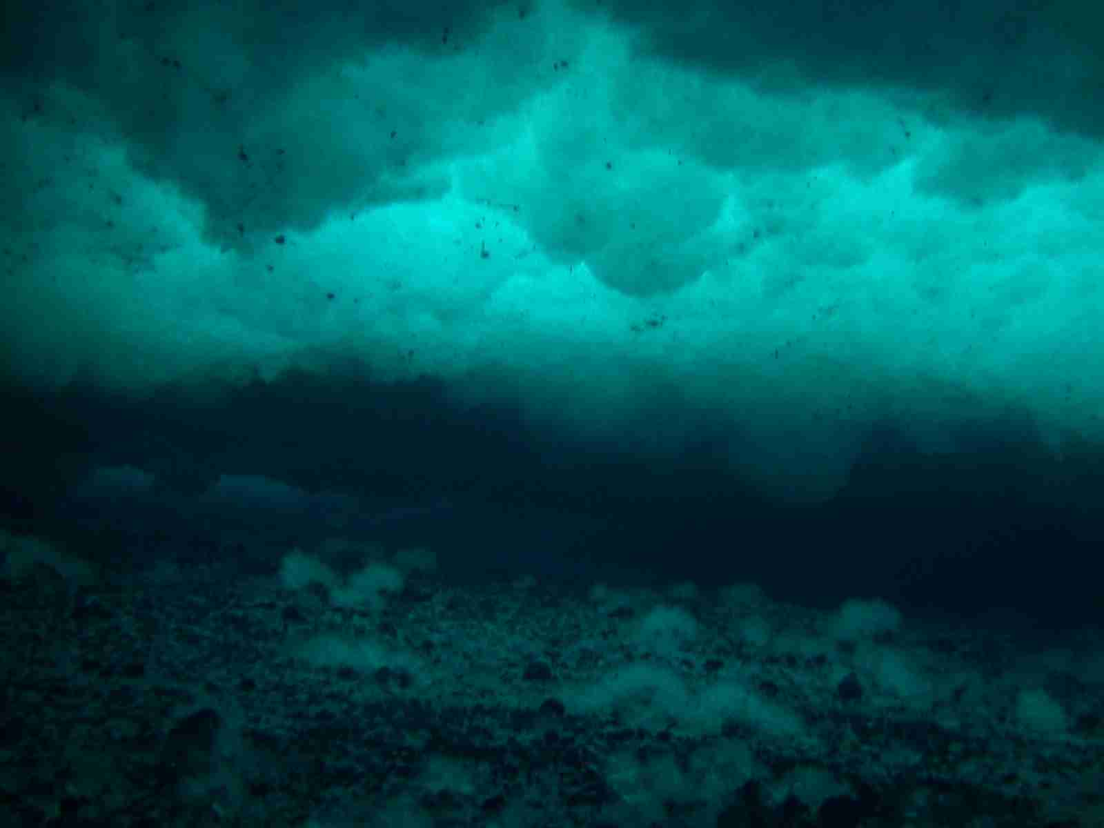 Anchor ice formations can be seen on the sea floor under the sea ice here at Cape Armitage off of Ross Island in McMurdo Sound, Antarctica. Anchor ice formations will 'cycle', meaning that they will become bouyant enough to lift the rock or gravel that they are attached to off of the sea floor, and will float away in the current or attach to the underside of the sea ice. New anchor ice formations are constantly forming during the coldest periods of the year, September to December. photo by Paul Cziko, DeVries/Cheng lab, University of Illinois, Urbana-Champaign, USA.